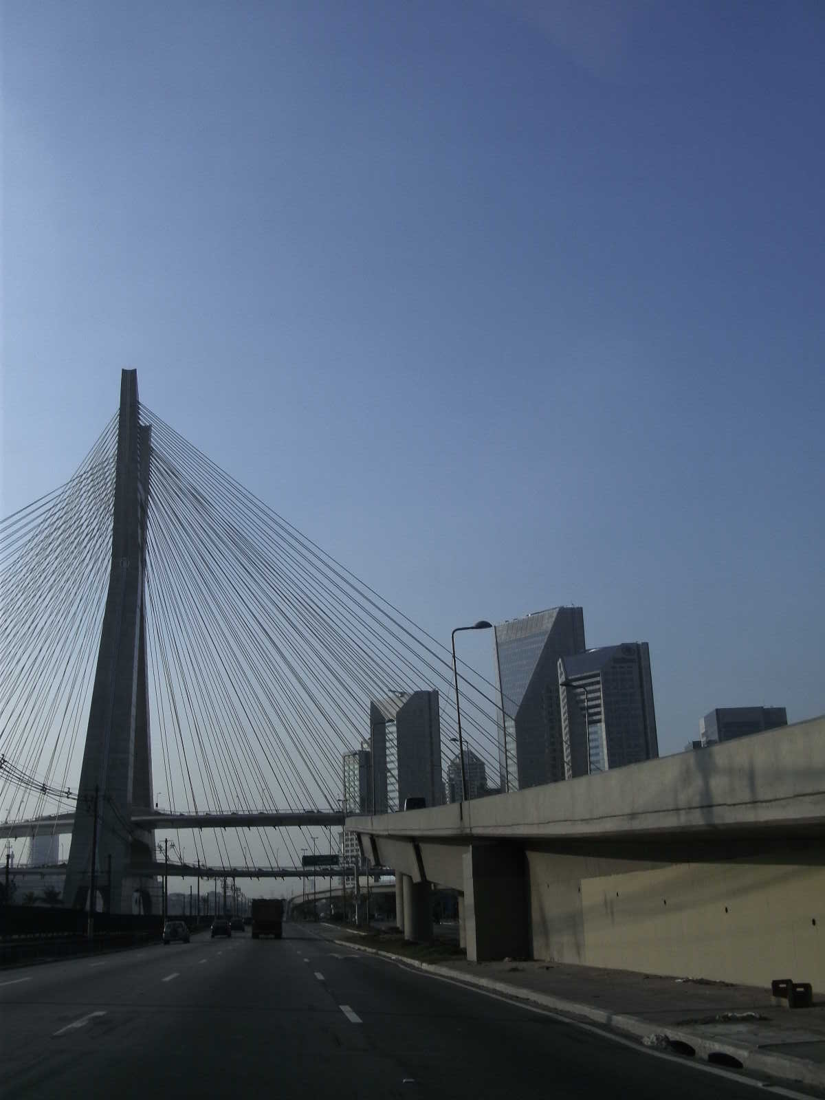 Av Jornalista Roberto Marinho with Marginal from Pinheiros River, Sao Paulo, Brasil